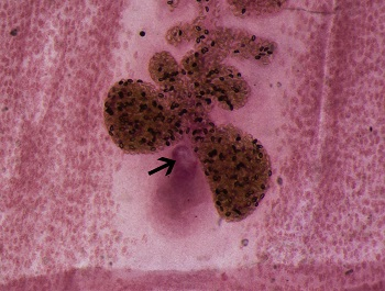 Close up showing the genital pore (arrow) opening on the ventral surface of the proglottid.